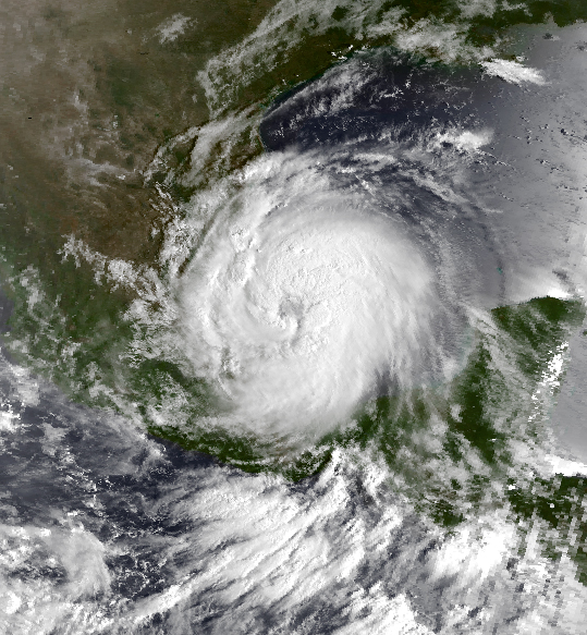 Hurricane Gert approaching the coast of Mexico on September 20, 1993.